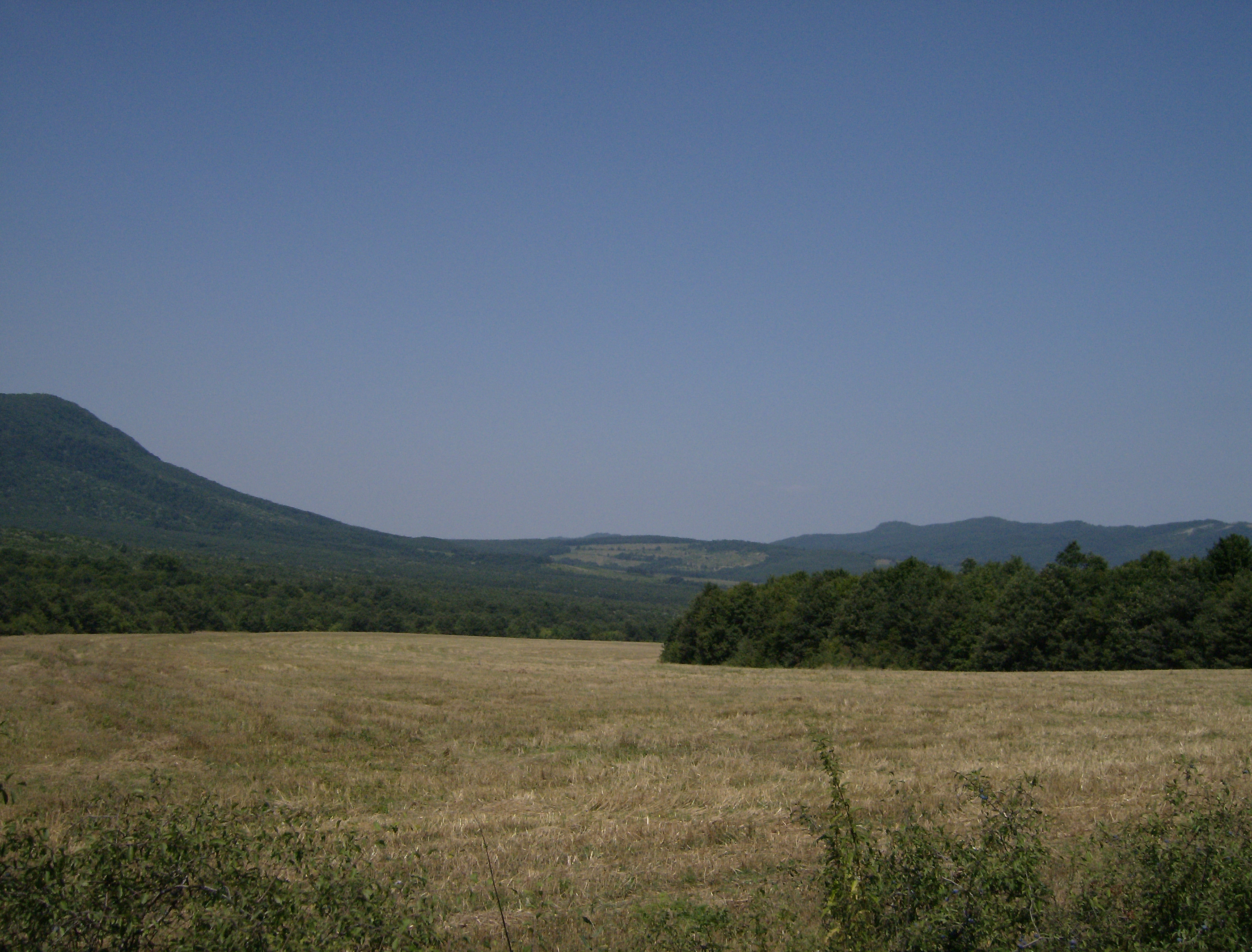 Varbishka - Dragoevska mountain